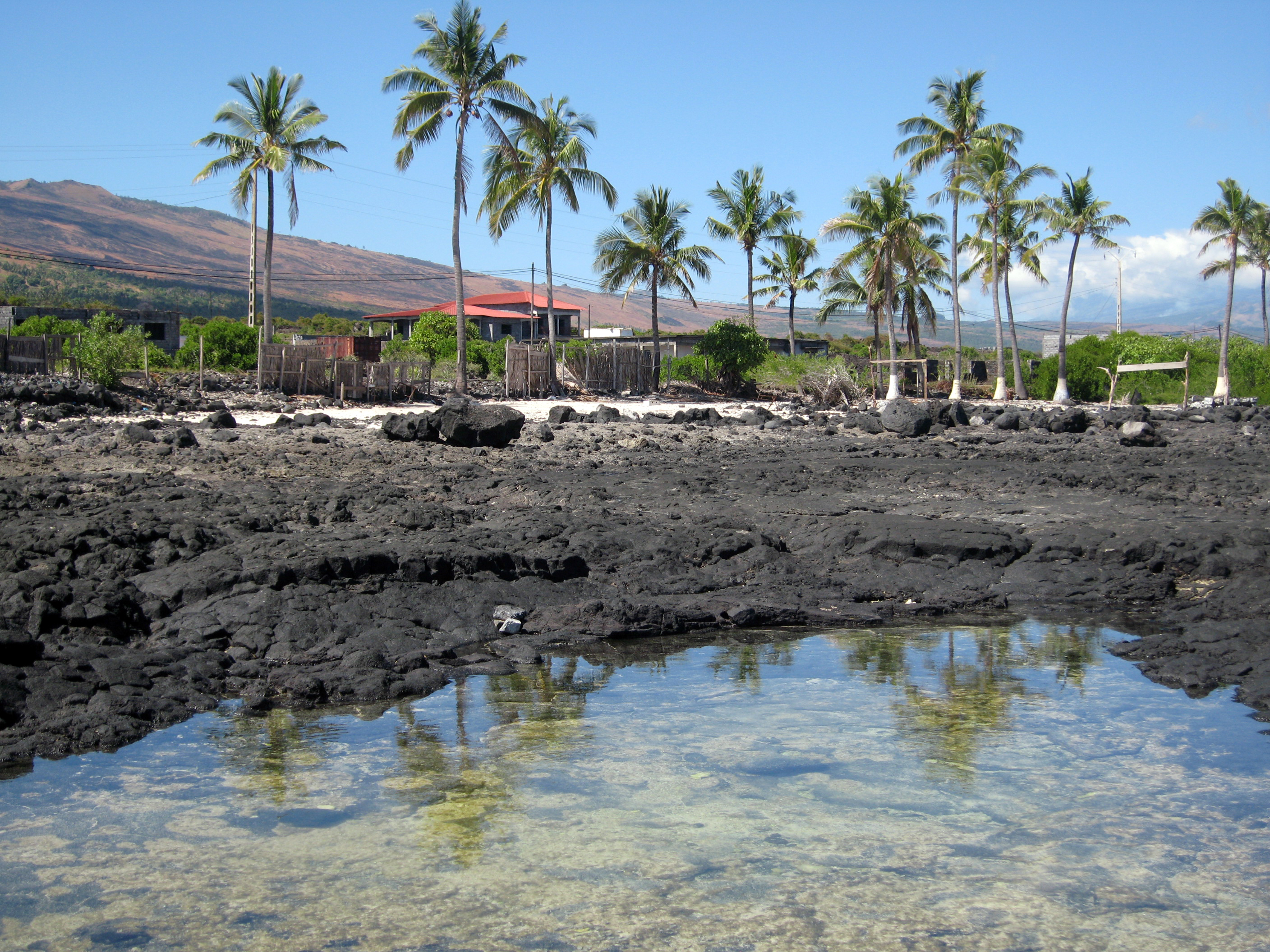 Coconut Palm trees in Grande Comore